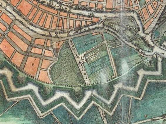 A part of the map "Dantzig in Plano".